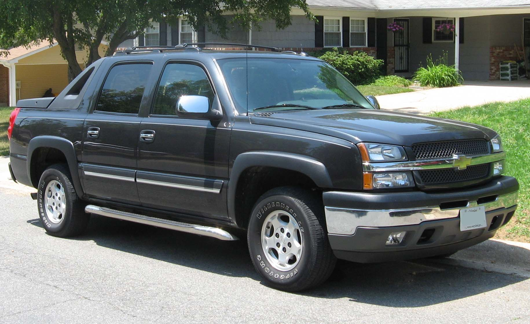 2003-2006 Chevrolet Avalanche photographed in USA.